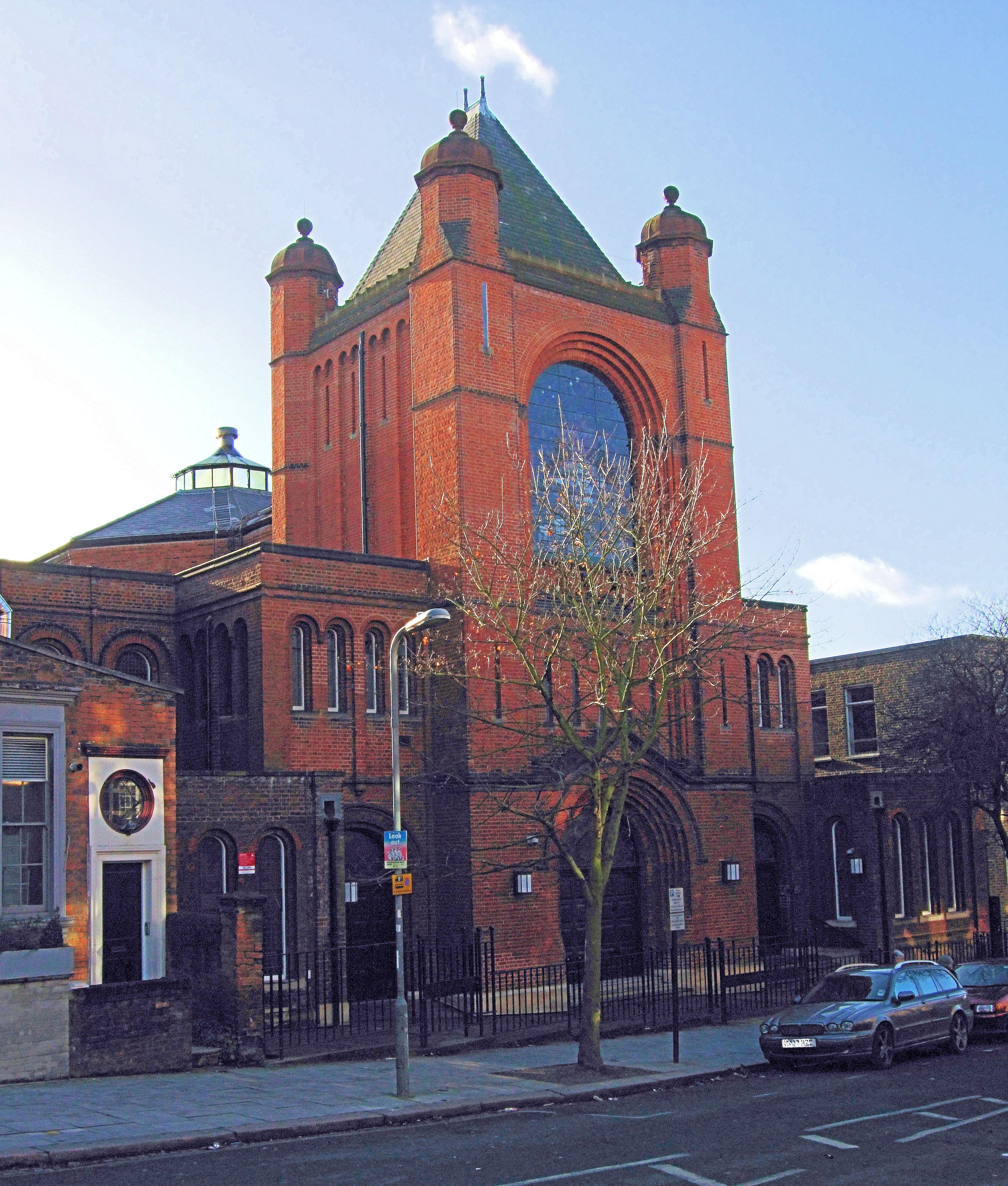 Hampstead Synagogue, Dennington Park Road, London NW6, seen from the northeast. A Jewish orthodox synagogue built 1892–1901.